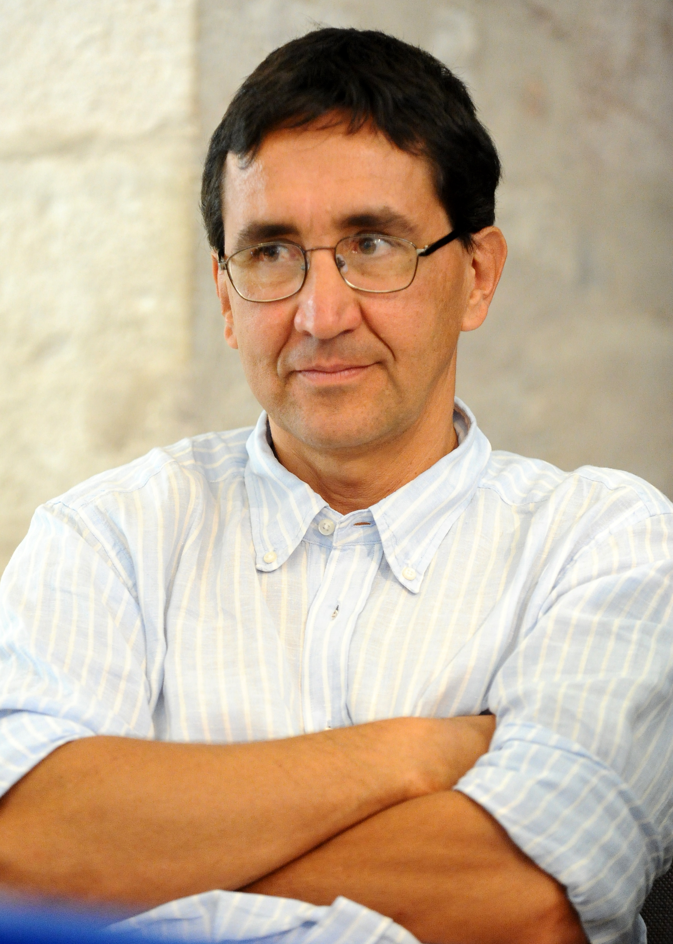 Festival of Economics, Trento 2012.